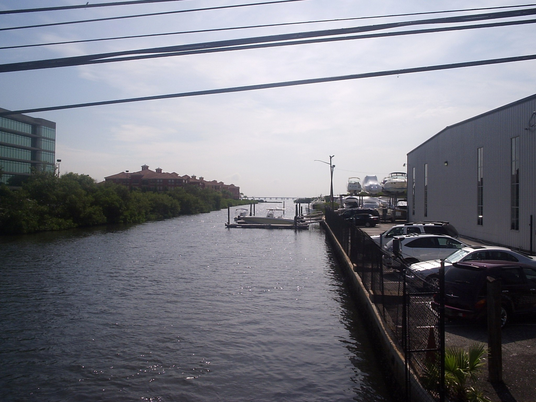 Allen's Creek looking east from U.S. 19 towards Tampa Bay. Tampa, Florida.